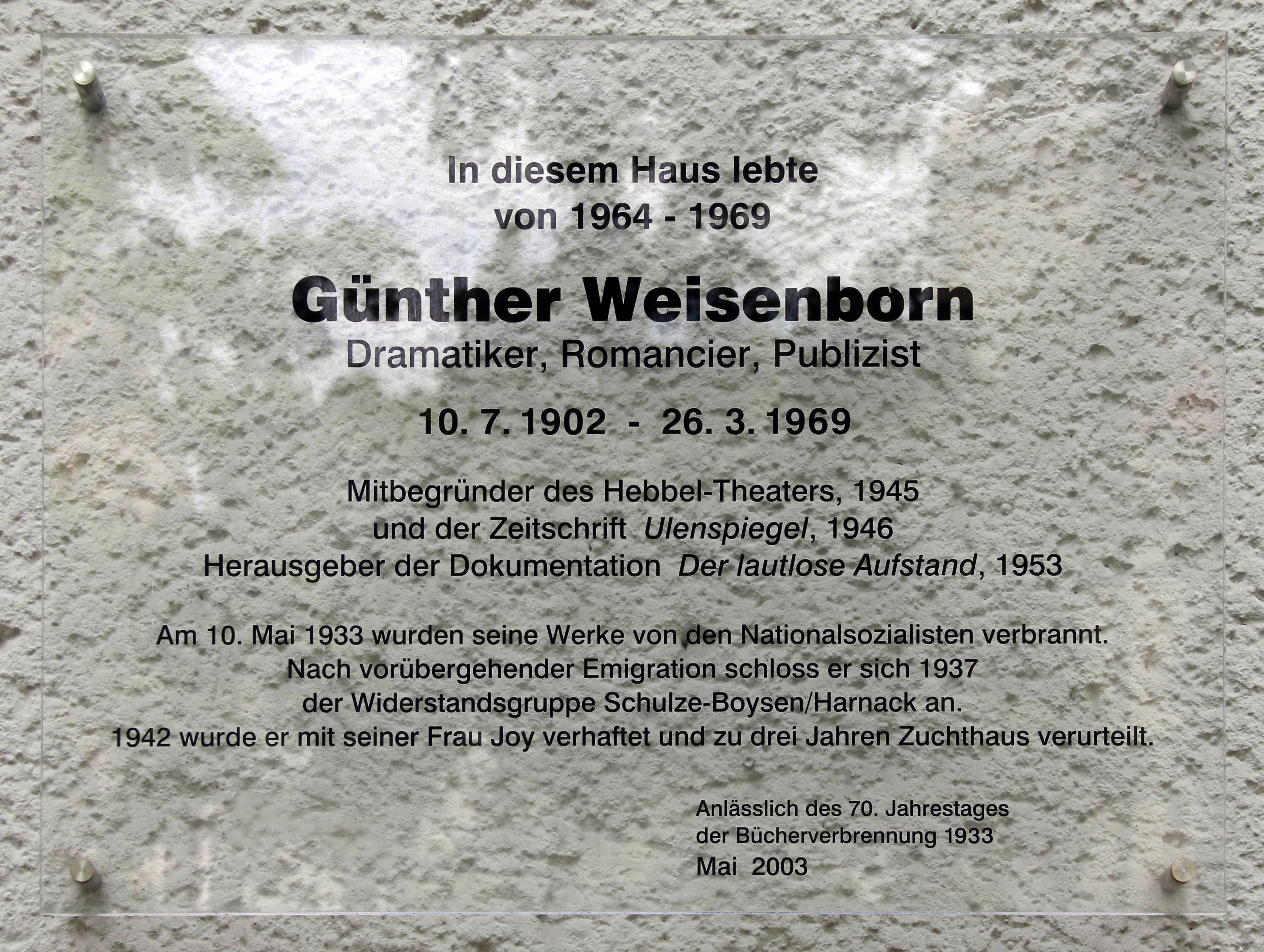 Memorial plaque, Günther Weisenborn, Niedstraße 25, Berlin-Friedenau, Germany